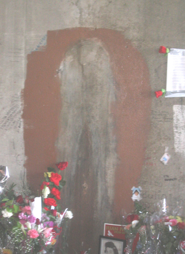 virgin_mary_salt_stain_1 Here's a look at the post- defacement, post-restoration salt stain of the Virgin Mary underneath an expressway near my house in Chicago.